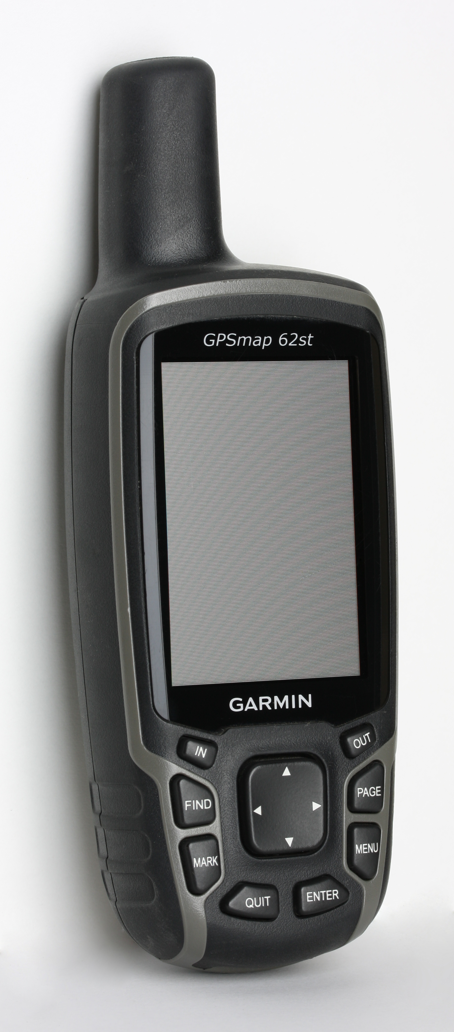 A Garmin GPSmap 62st GPS navigation device